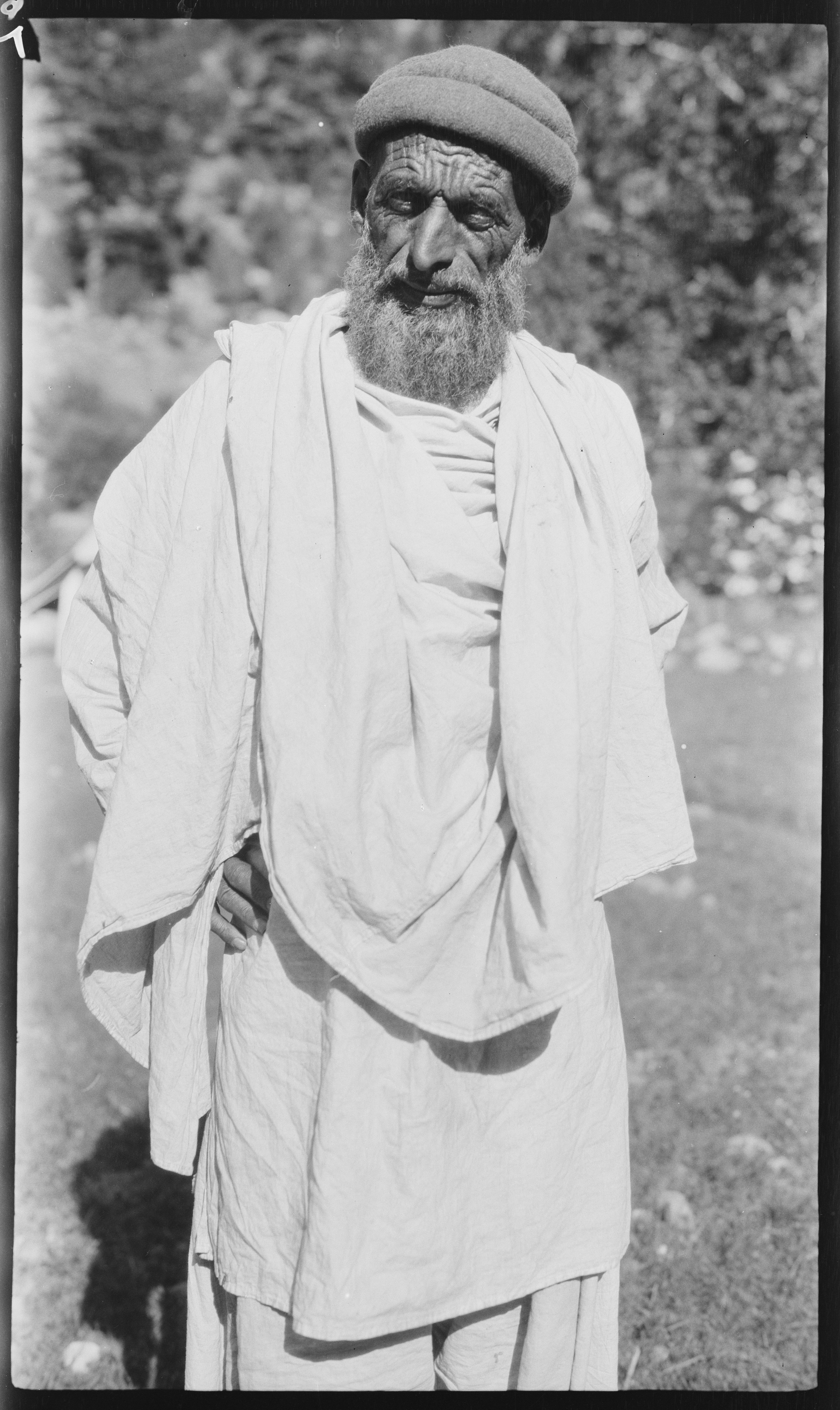 Rumbur Valley, Chitral, NWFP, Pakistan Kooli (Muslim name Abdal Kadir), the last pre-Islamic malik (chief) of the Red Kafirs (Katis) of Kunisht. Tall and blue eyed. A number of Katis escaped from the Bashgal Valley in Afghanistan in 1896 to avoid forced islamisation.